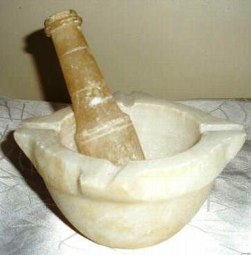 Mortal and pestle used to ground homeopathic remedies